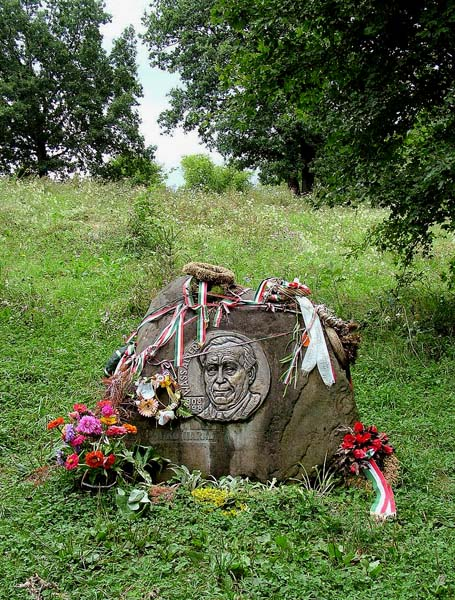 Wass Albert's grave in Marosvécs (Brâncoveneşti, Mureş County, Romania)